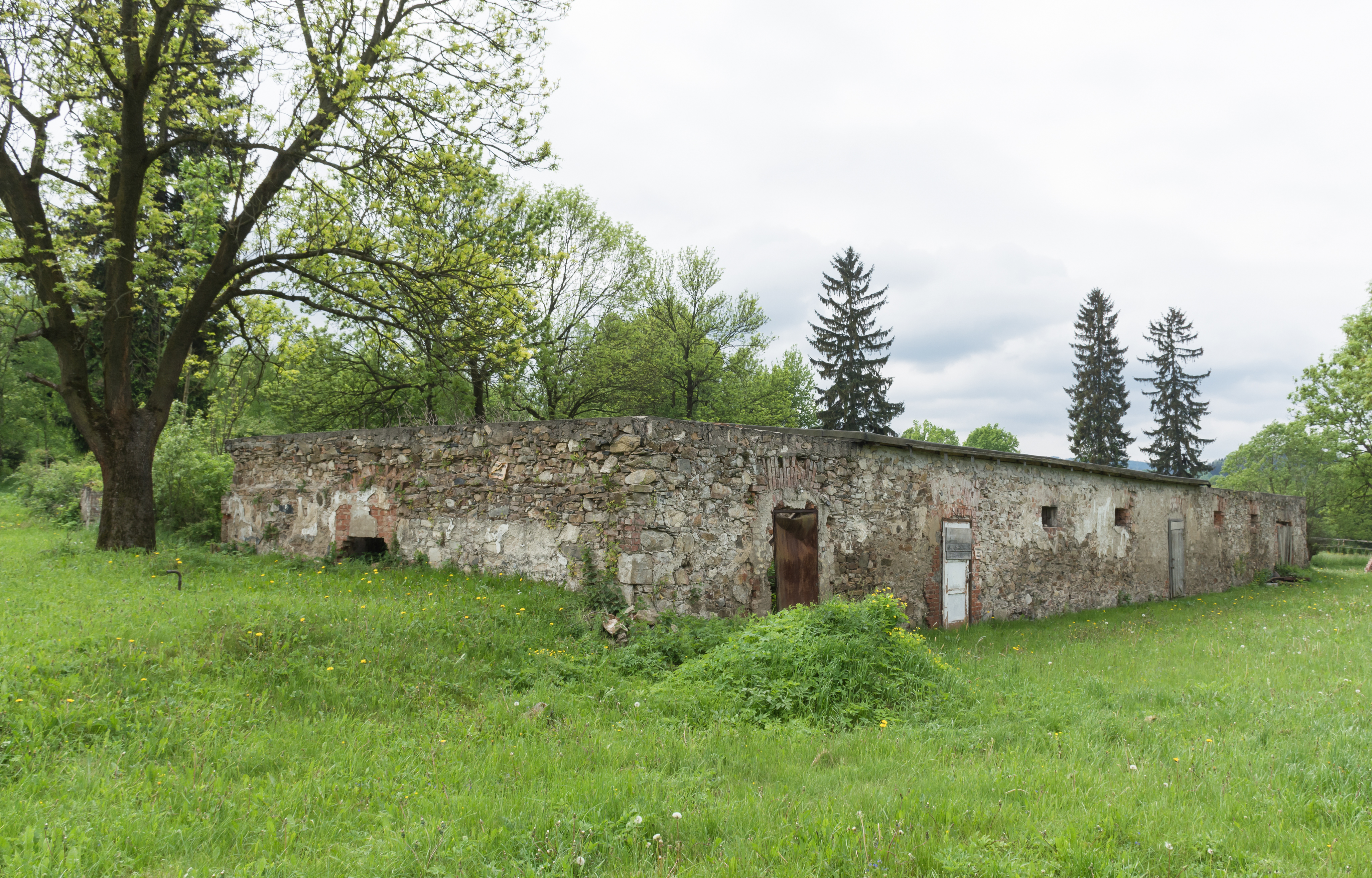 Manor in Radochów